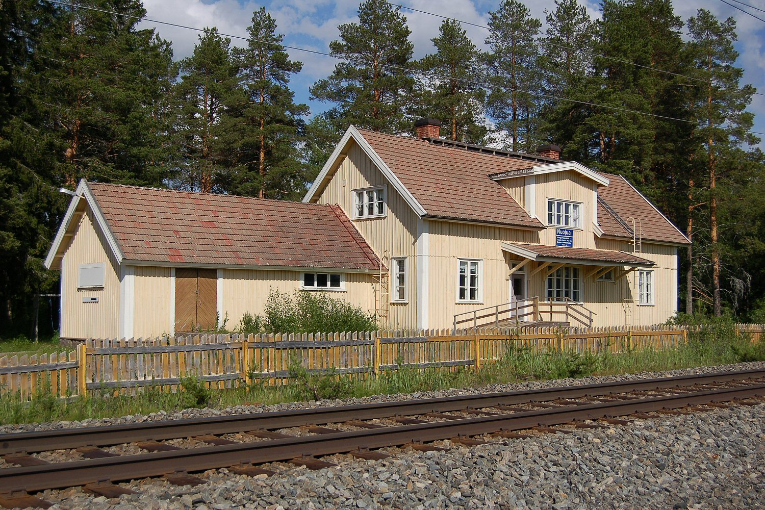 Ex. Nuojua railway station, Vaala, Finland.